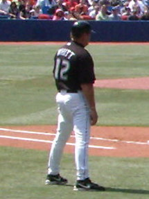 View of an April 2008 Toronto Blue Jays vs. Detroit Tigers baseball game from the crowd at the SkyDome in Toronto, Ontario, Canada